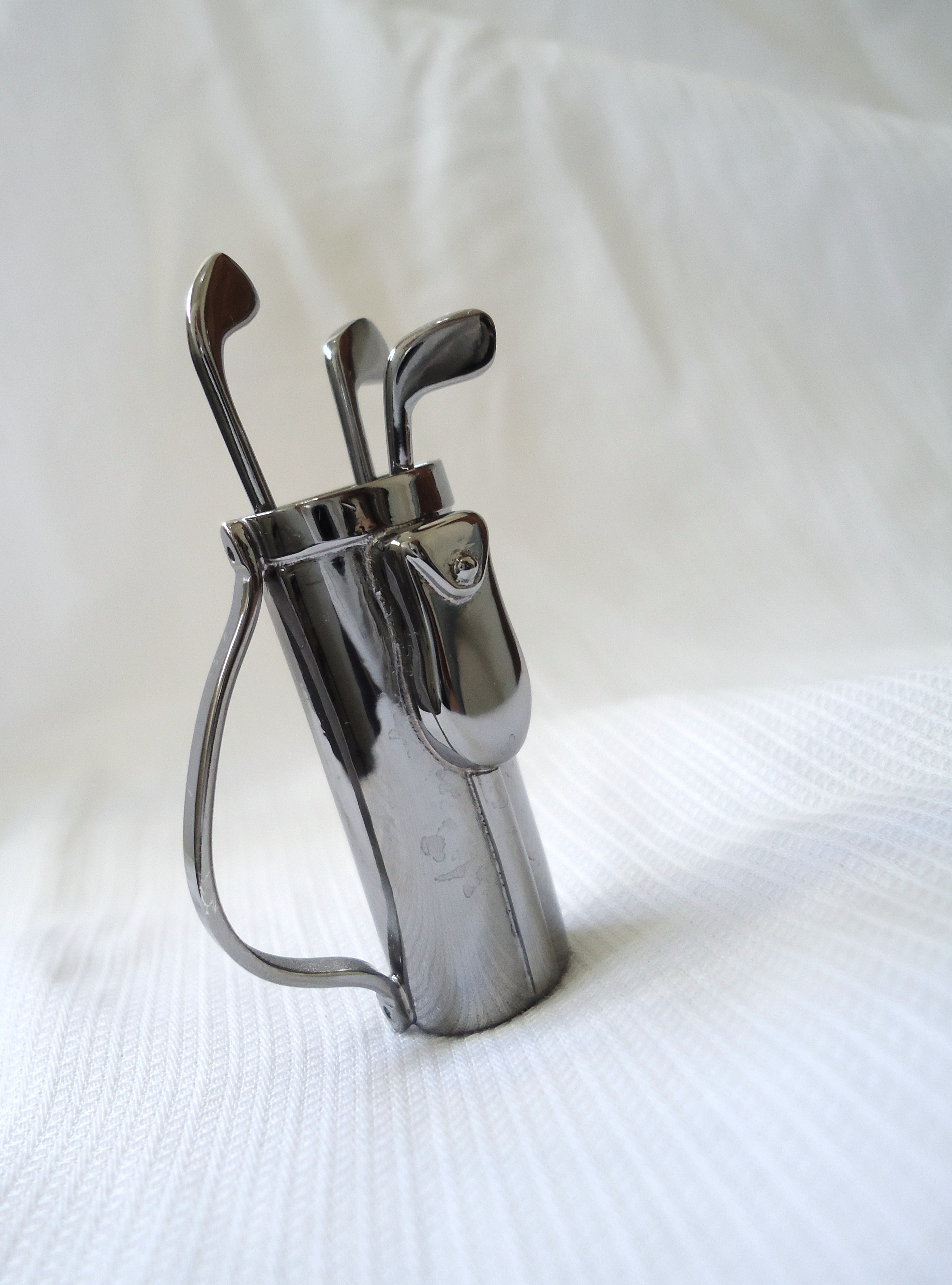 Miniature golf equipment. Black rhodium plated copper. Height: 55 mm. Made by Mauro Cateb, Brazilian jeweler and silversmith.